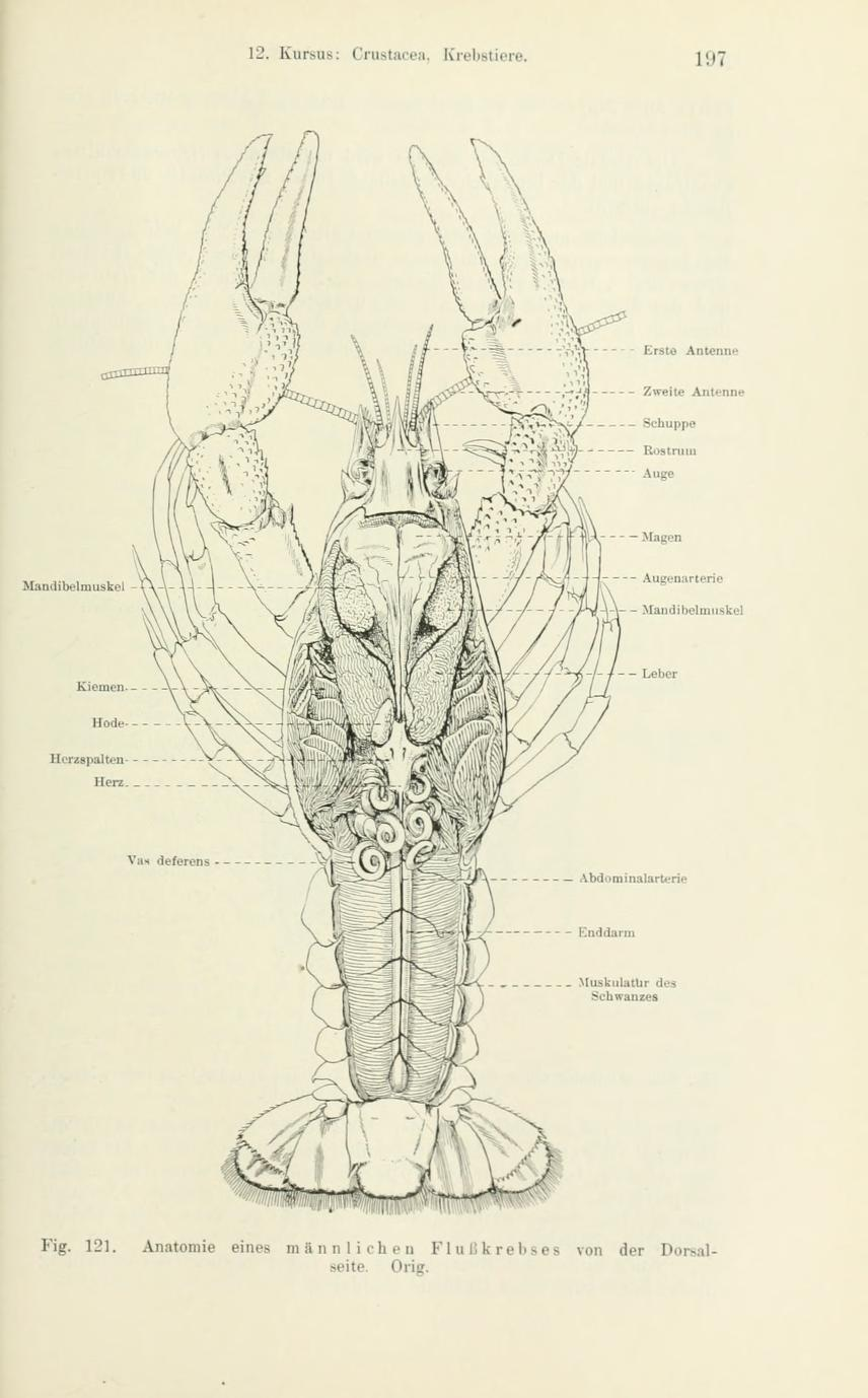 Inner anatomy of a male European crayfish (Astacus astacus).